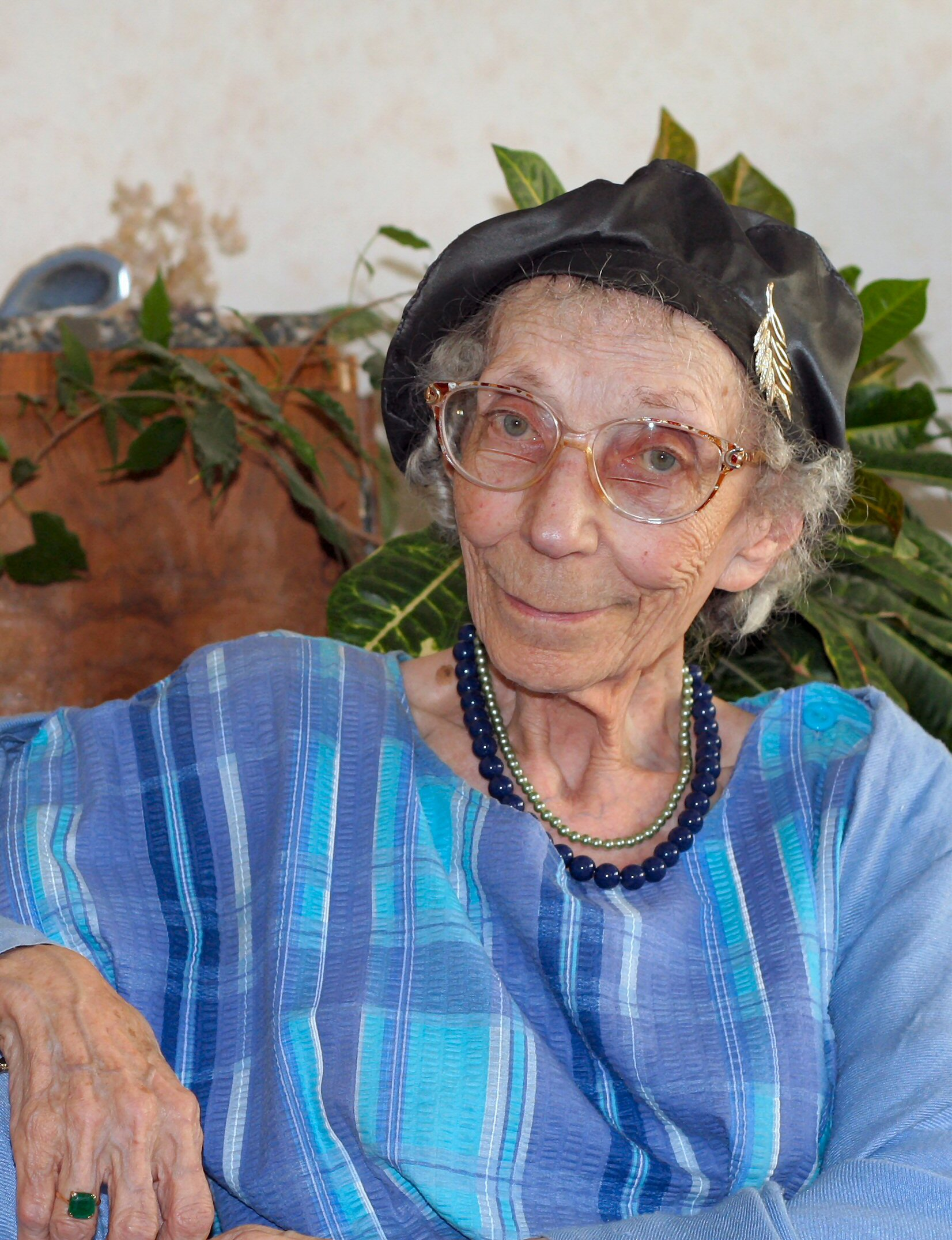 Marguerite-Marie Dubois, Emeritus Professor University Paris IV Sorbonne